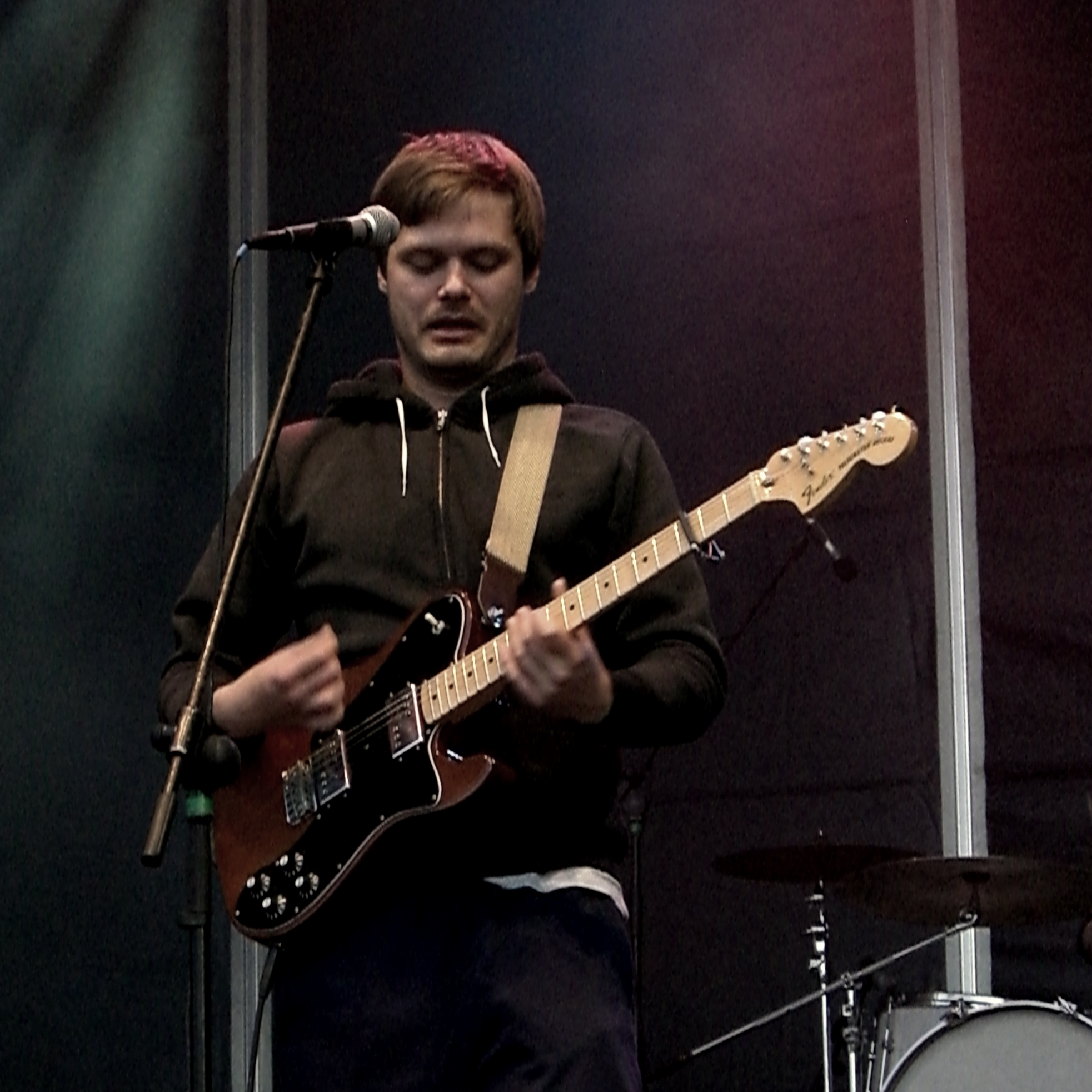 German singer-songwriter ClickClickDecker at Obstwiesenfestival, July 18, 2009